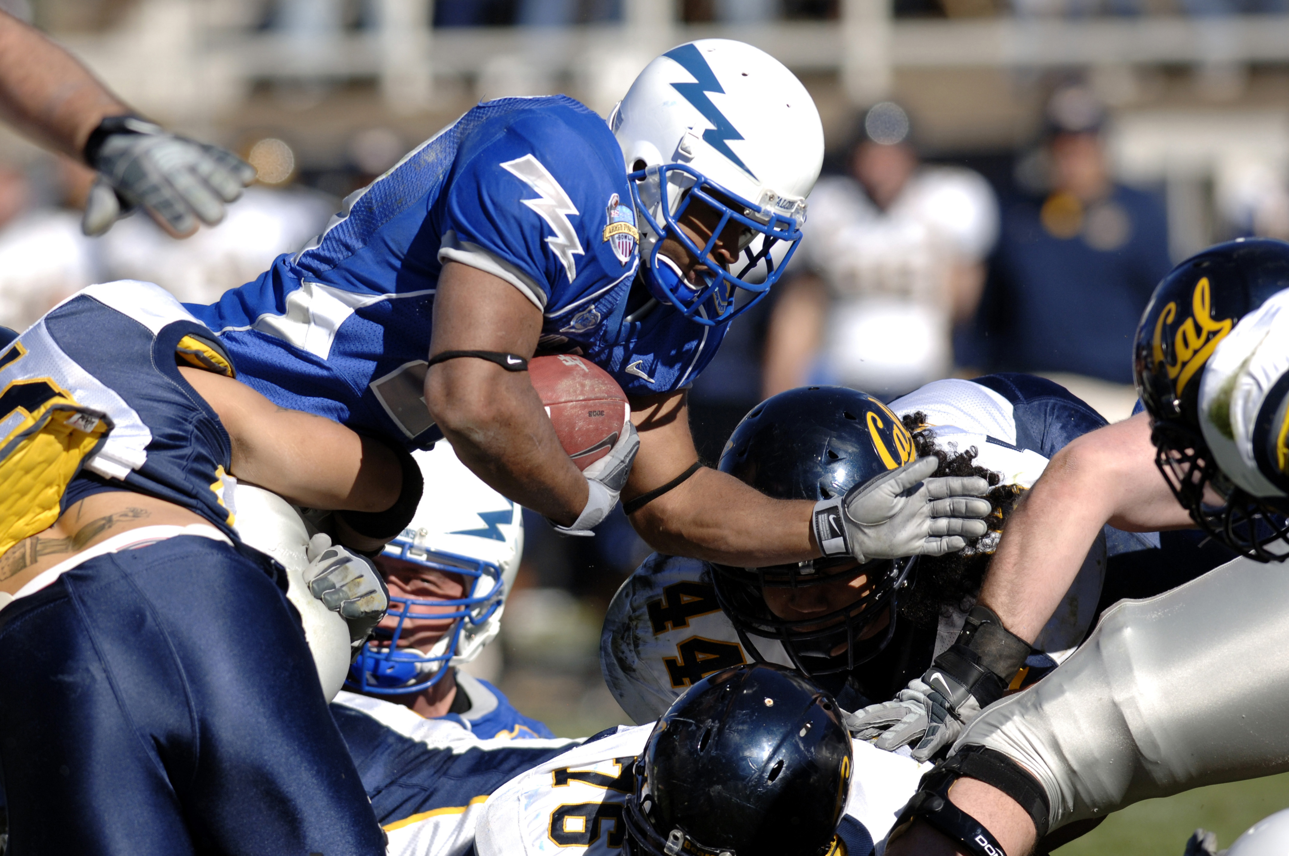 U.S. Air Force Academy senior fullback Ryan William gains yardage against the California Golden Bears football team during the Bell Helicopter Armed Forces Bowl at Amon G. Carter Stadium in Fort Worth, Texas. ID: 71231-F-0558K-004